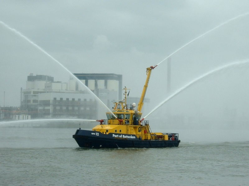 Port of Rotterdam fire fighting ship